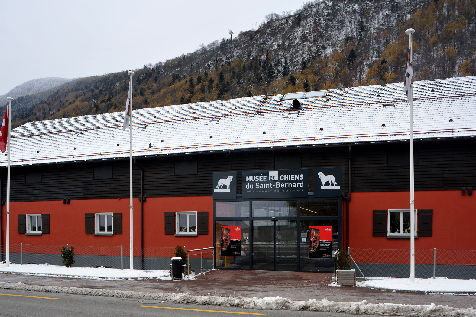 Musée et Chiens du Saint-Bernard in Martigny, exterior view of the museum; Valais, Switzerland.